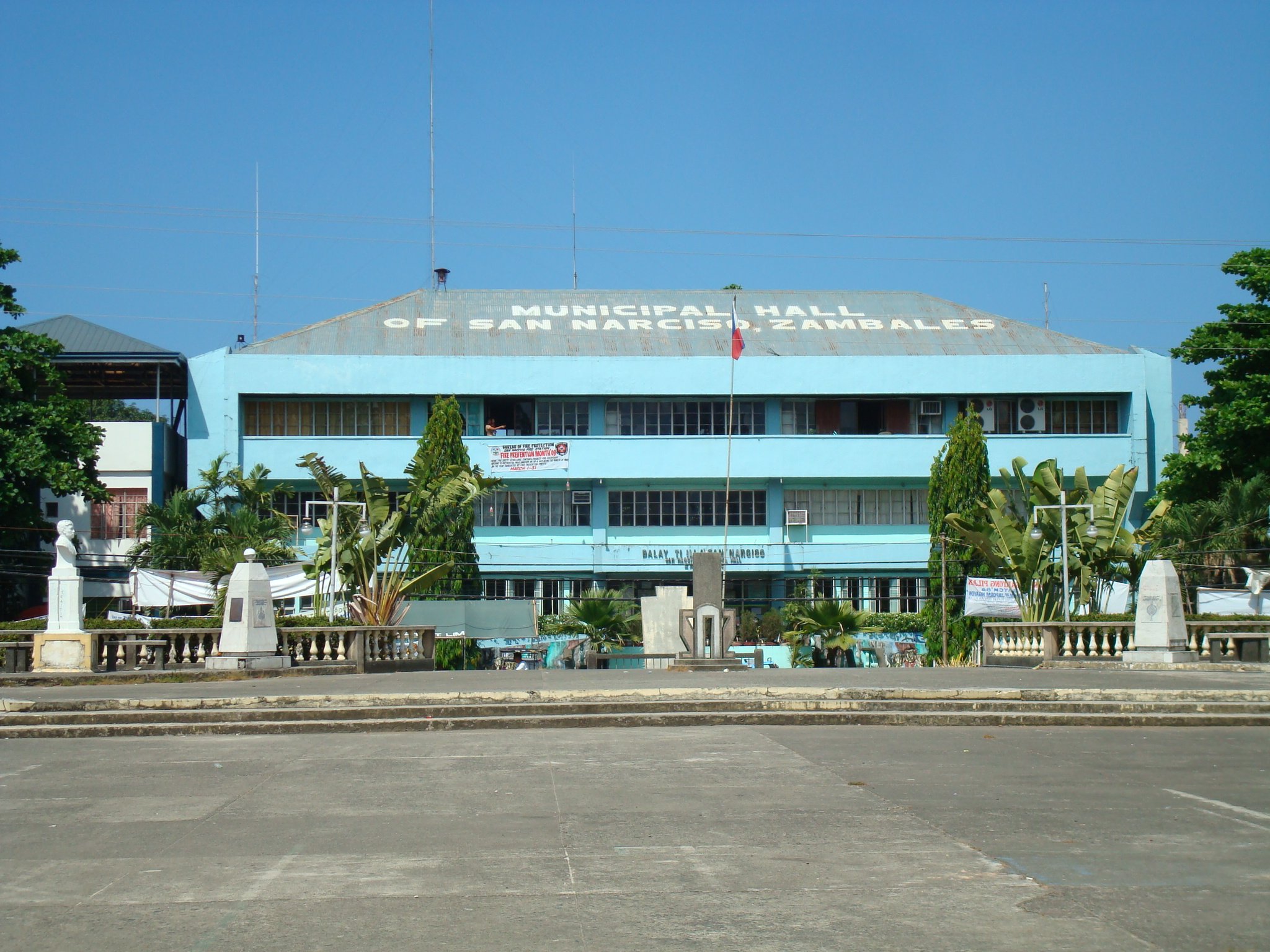 Municipal Building Photo, taken by Jose Dadural, which is uploaded in Panoramio